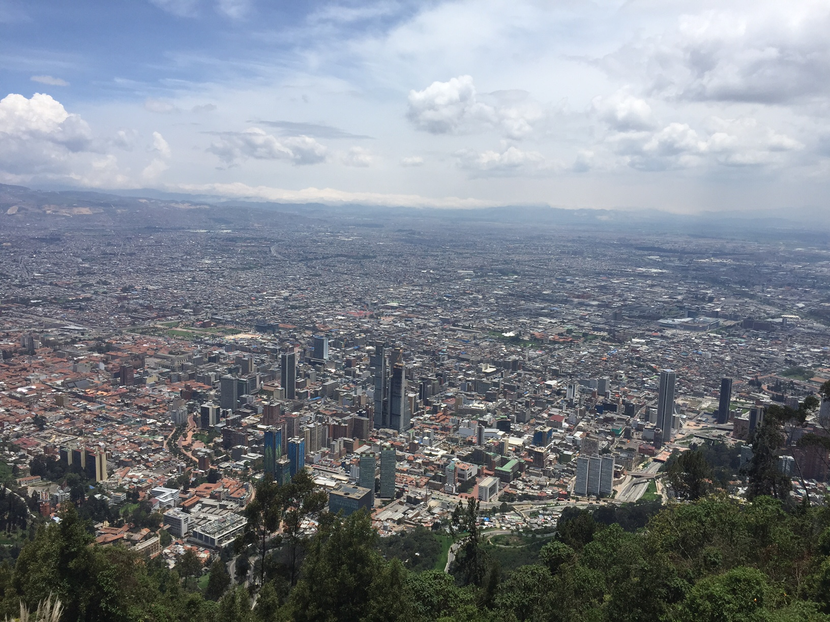 Panorámica de Bogotá desde Monserrate.